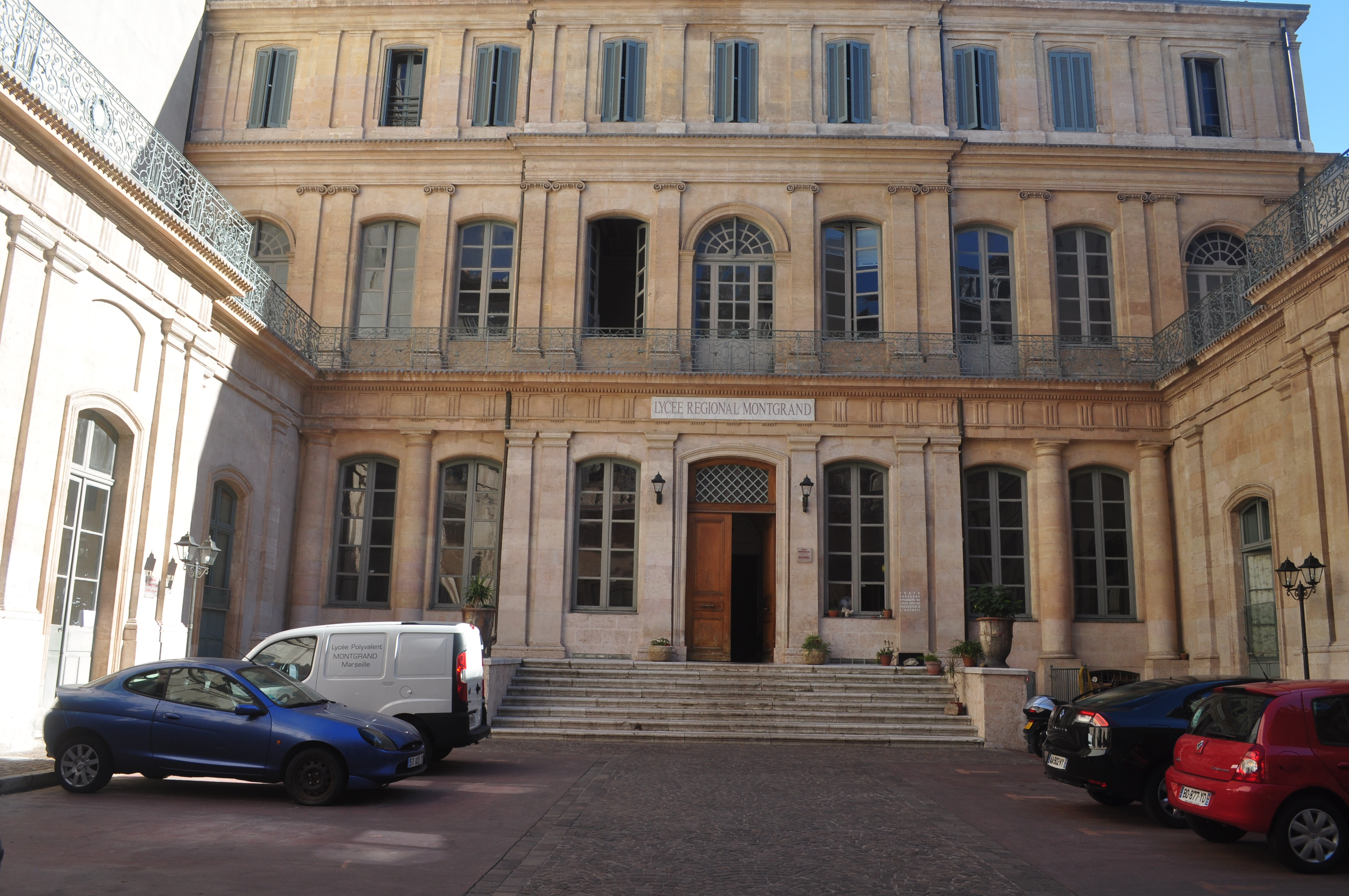 Marseille(France).L'hôtel Roux de Corse(2)